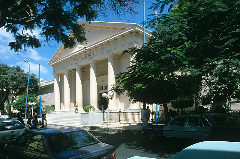 Façade of the Graeco-Roman museum, Alexandria, Egypt